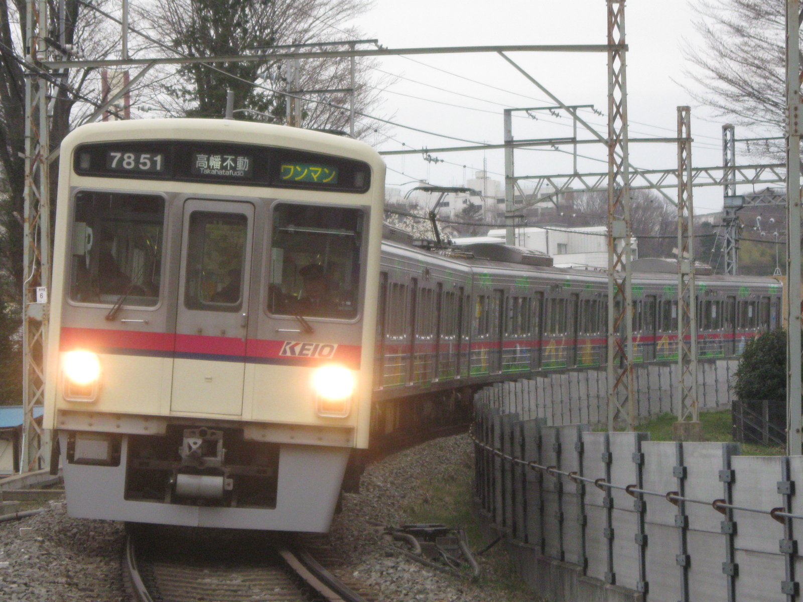 Keio 7801F Tama Zoo Train taken at a cross road between Takahata Fudo and Tama Dobutsu Koen